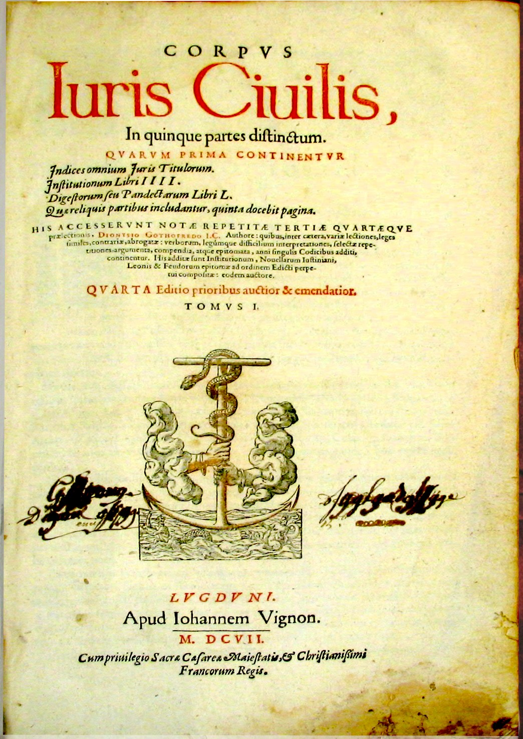 Front Page of Corpus Iuris Civilis by Denis Godefroy, Lyon 1607